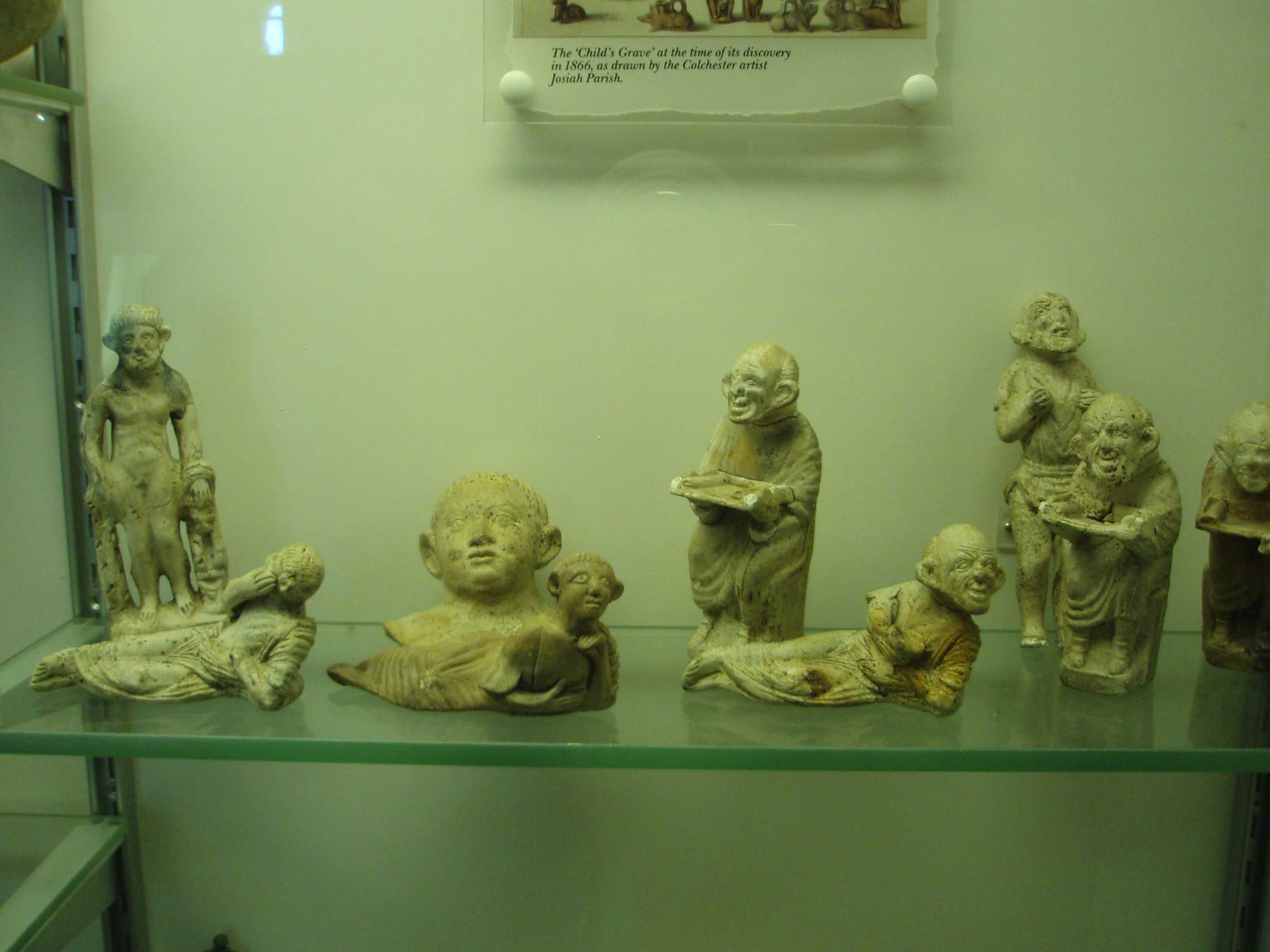 Colchester roman ornaments